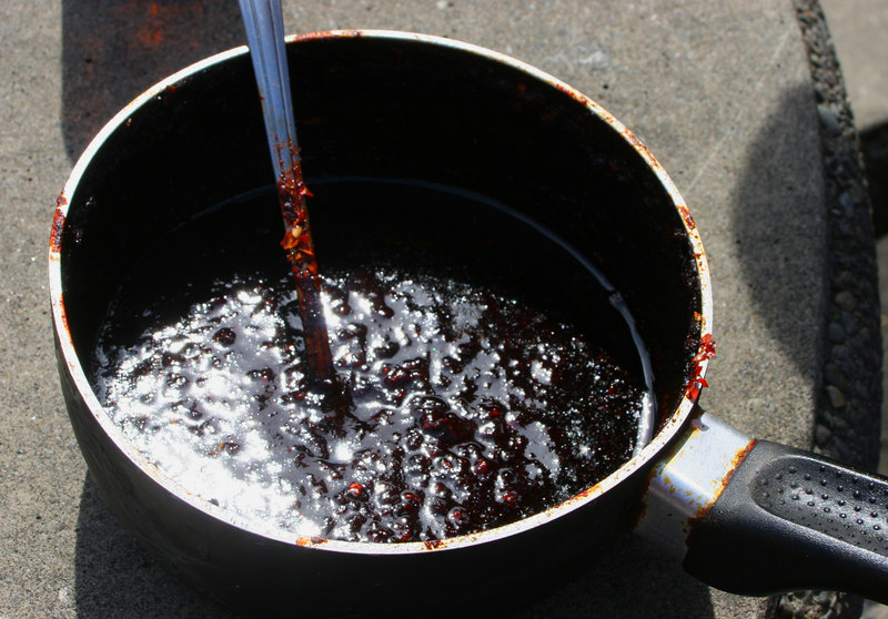 'The Man' hot bbq sauce made by Gene Porter served at Dixie's BBQ, Bellevue, WA 2006-04-12